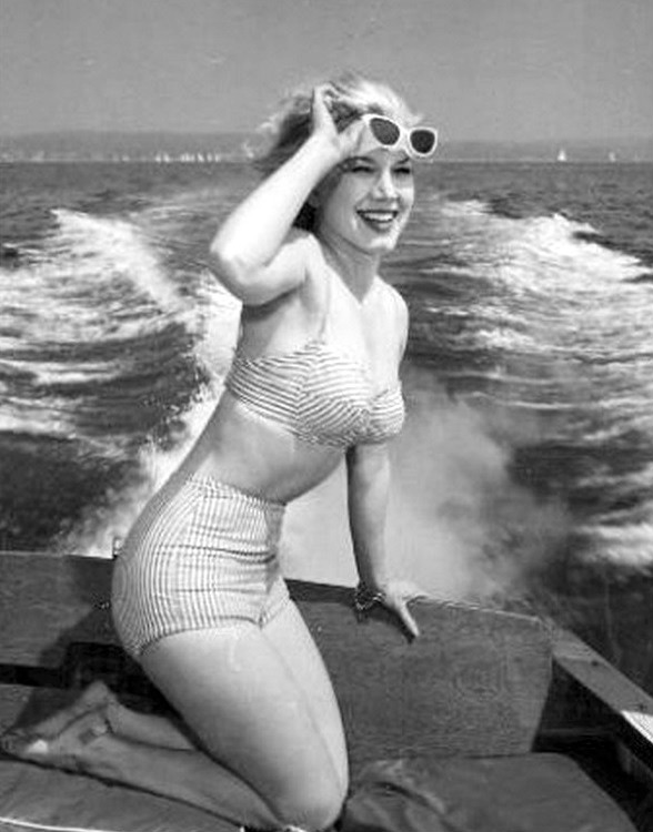 Photo of model-actress Marian Stafford from the television game show Treasure Hunt. Stafford was an assistant to the show's host, Jan Murray.